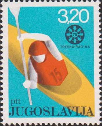 Yugoslav stamp dedicated to the 1975 ICF Canoe World Championships